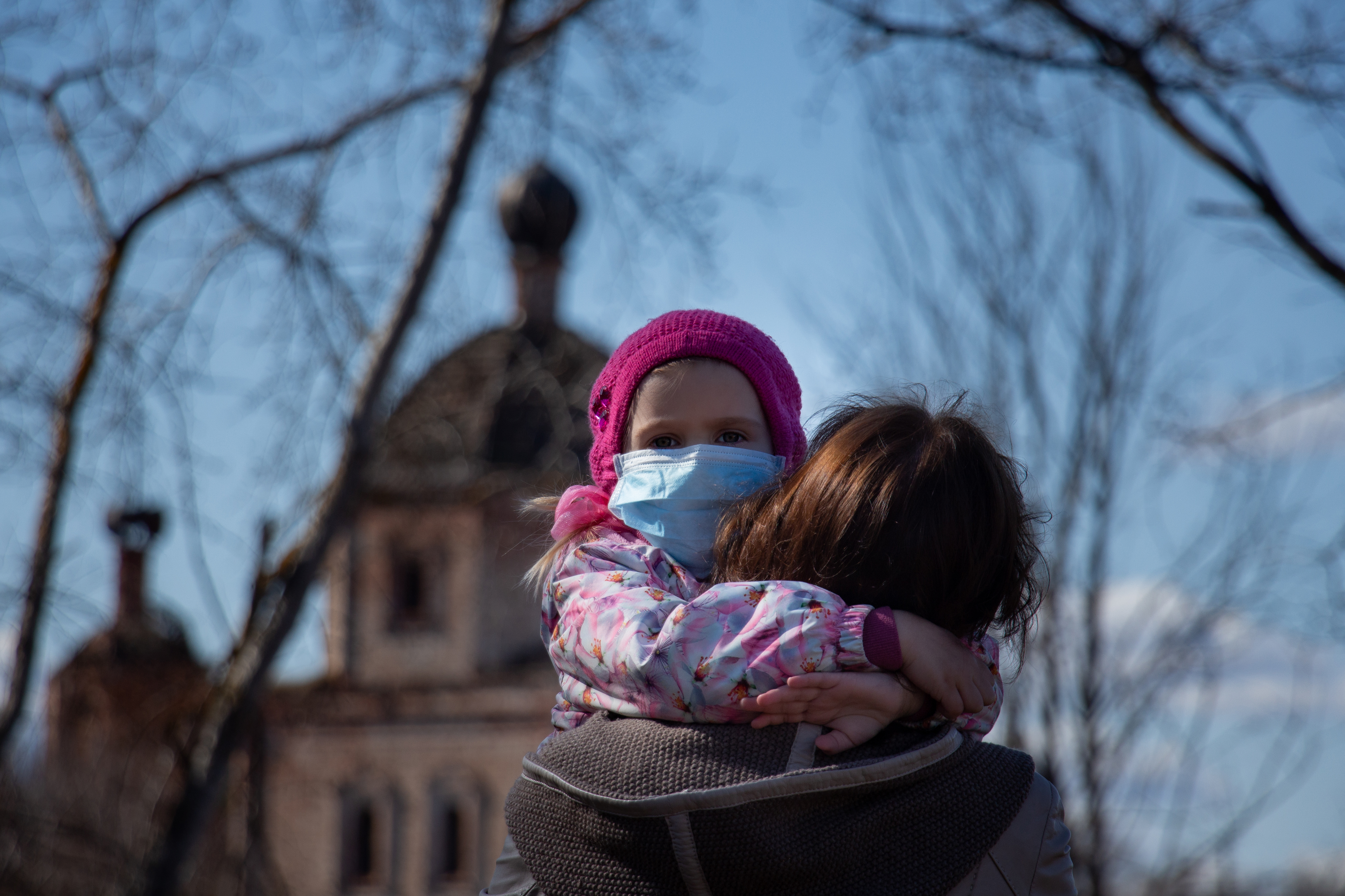 baby and mom during a coronavirus pandemic